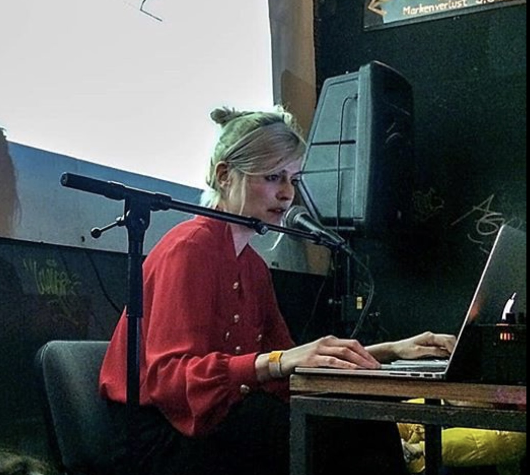 Elisabeth Pich